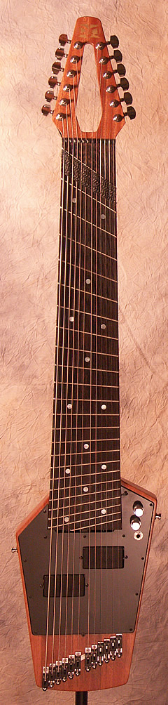 Mobius Megatar Two-Handed Tapping Instrument (ToneWeaver model)